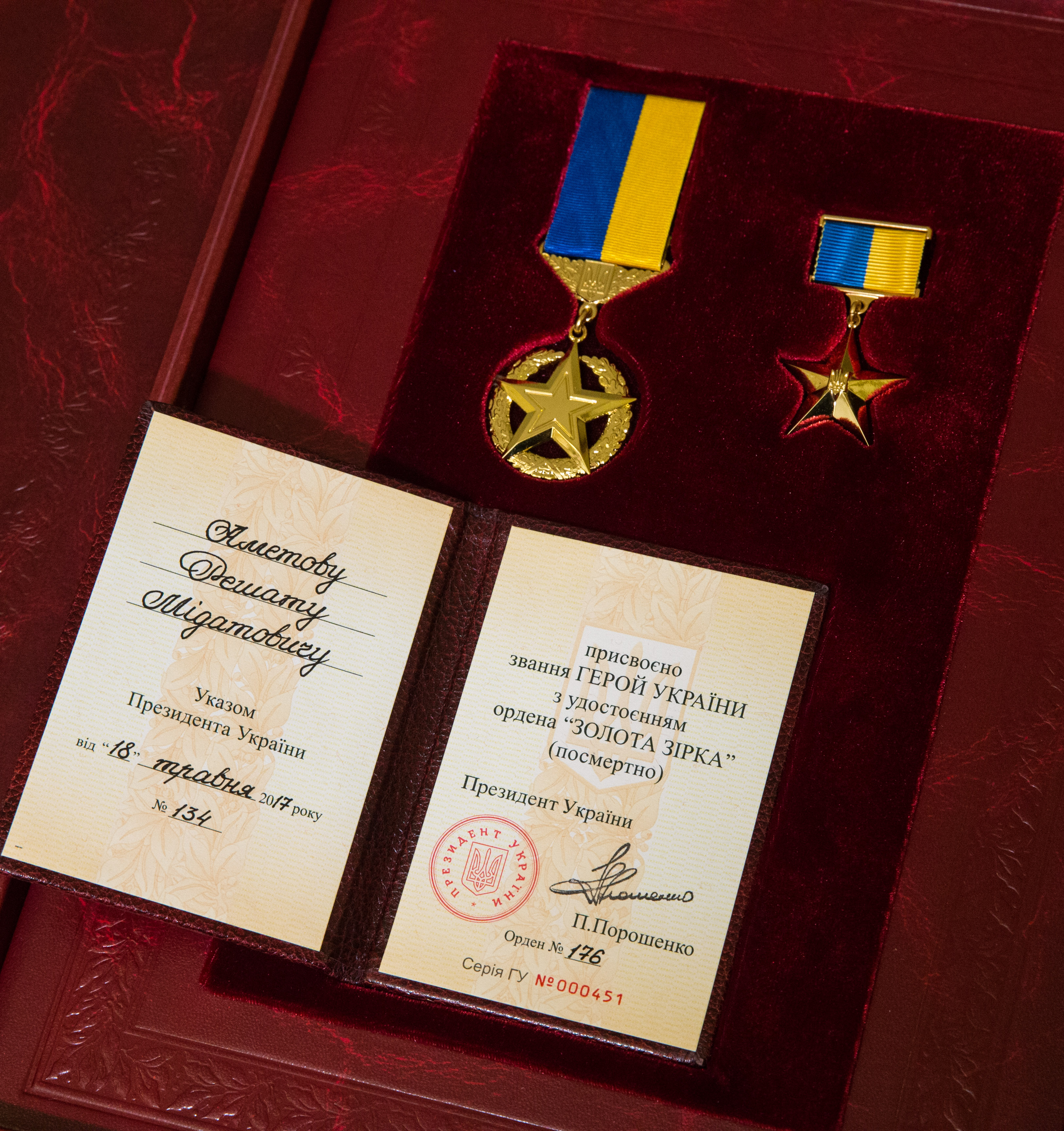 the Golden Star of the Hero of Ukraine